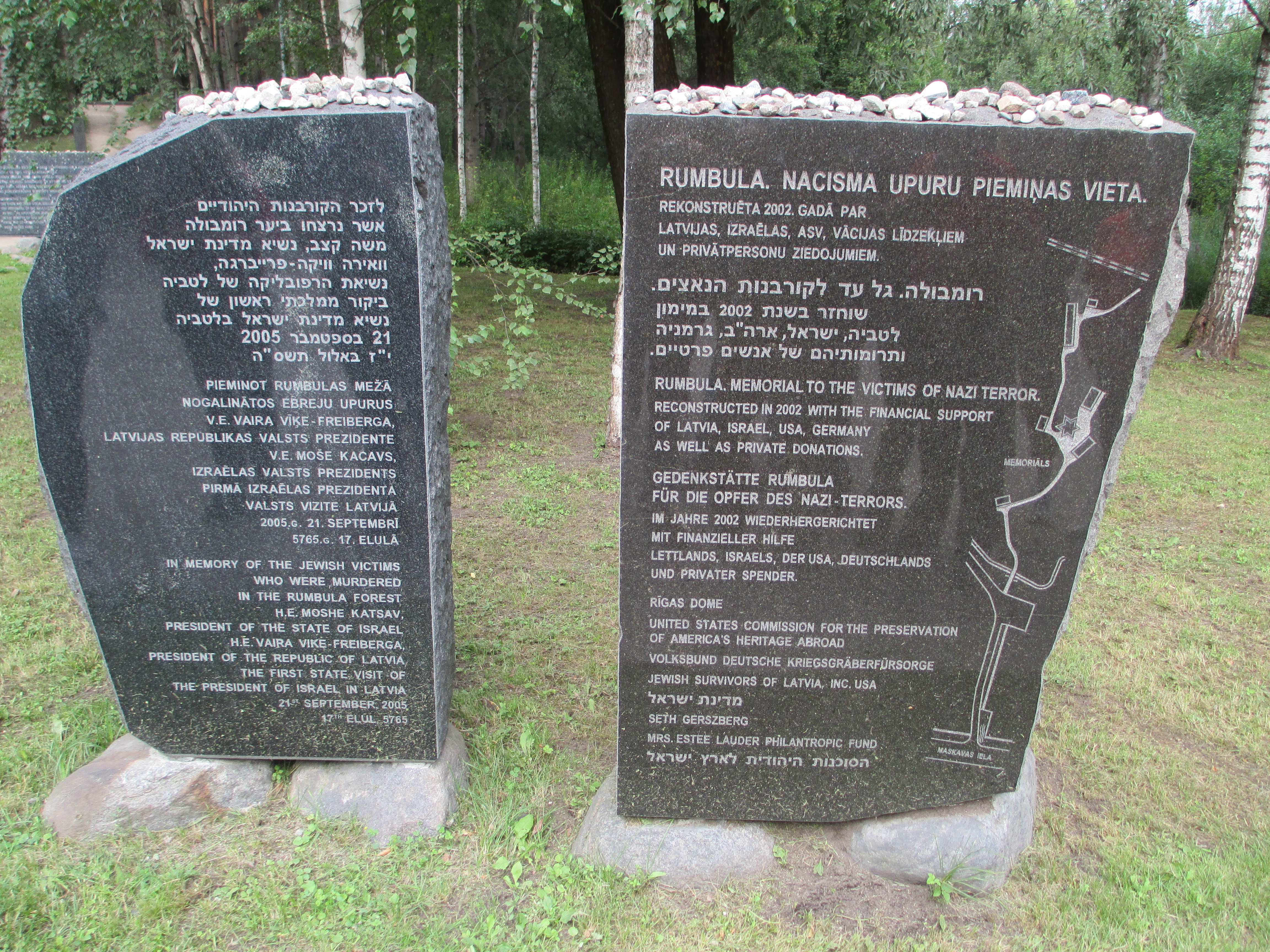 rumbula forest memorial near riga